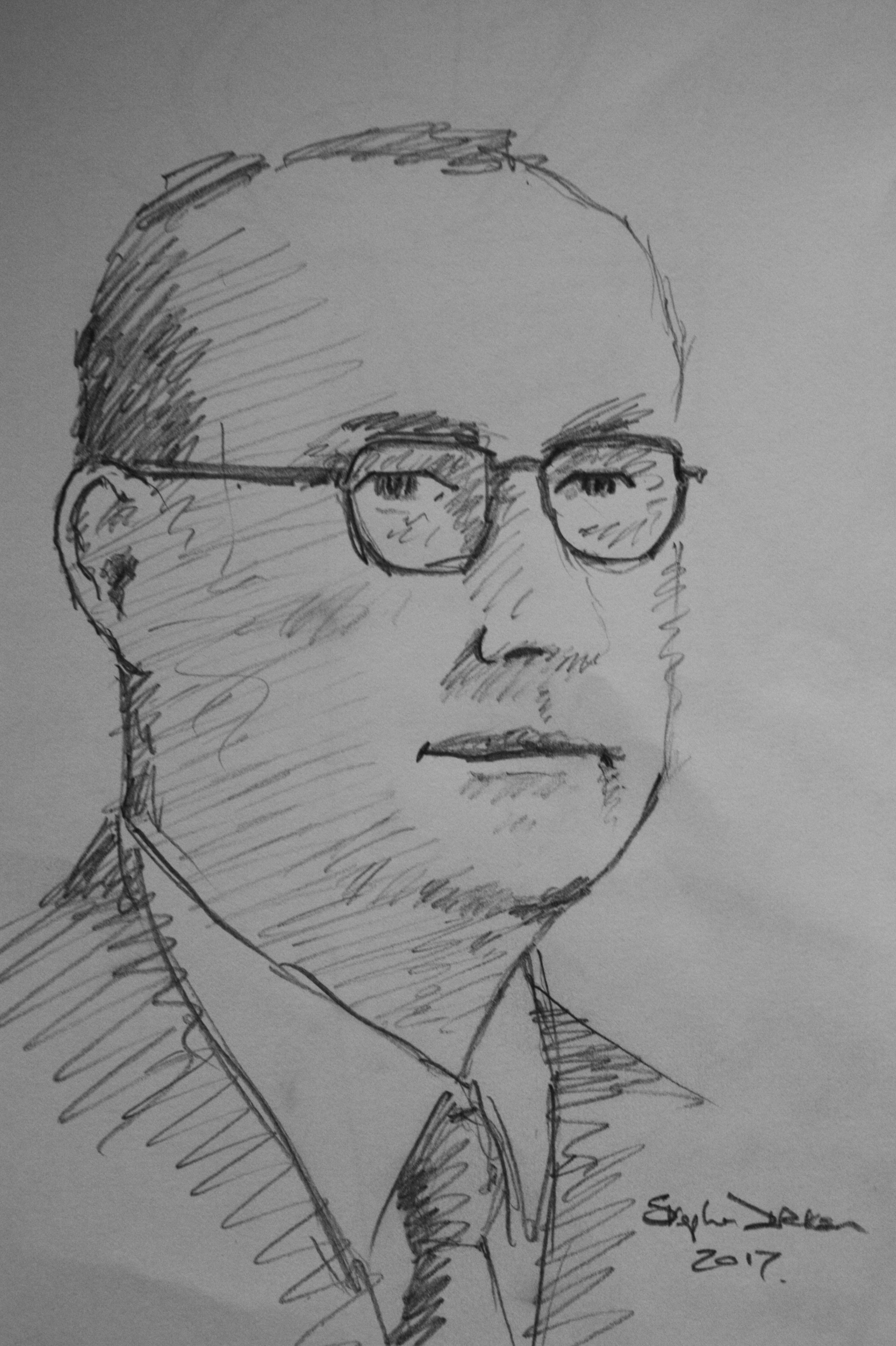 Colin Campbell Mitchell, sketch by Stephen Dickson